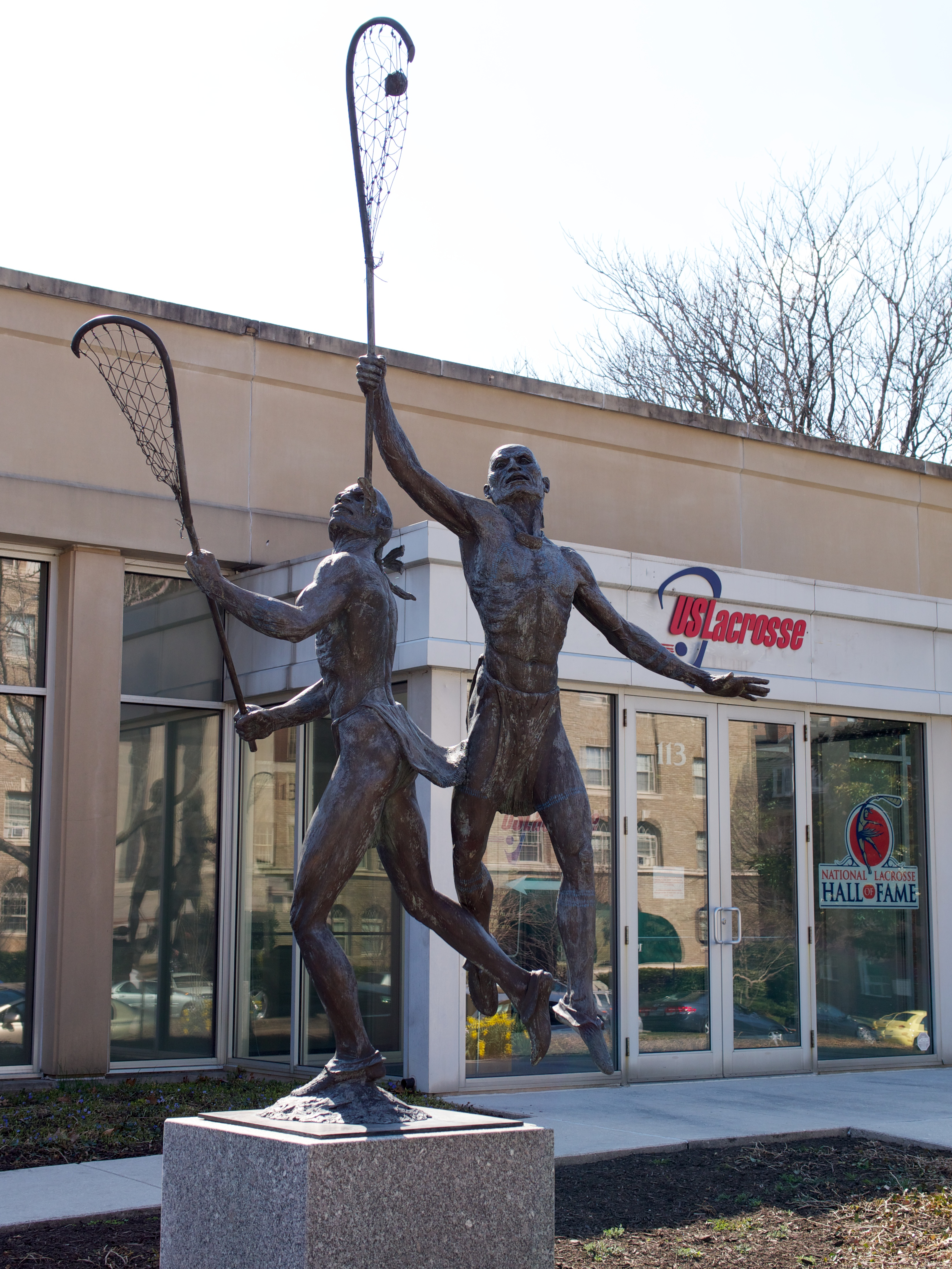 This bronze statue is in front of the US Lacrosse National Lacrosse Hall of Fame at Johns Hopkins University.